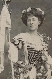 Olive Rae (1878-1933) as the May Queen in 'Merrie England' at the Savoy Theatre in 1902